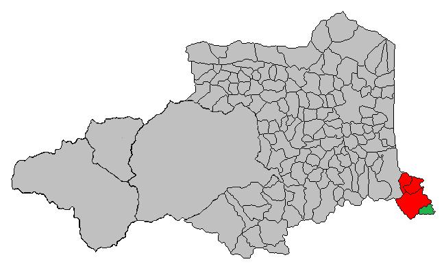 Location of the Collioure AOC within the Banyuls region of Roussillon